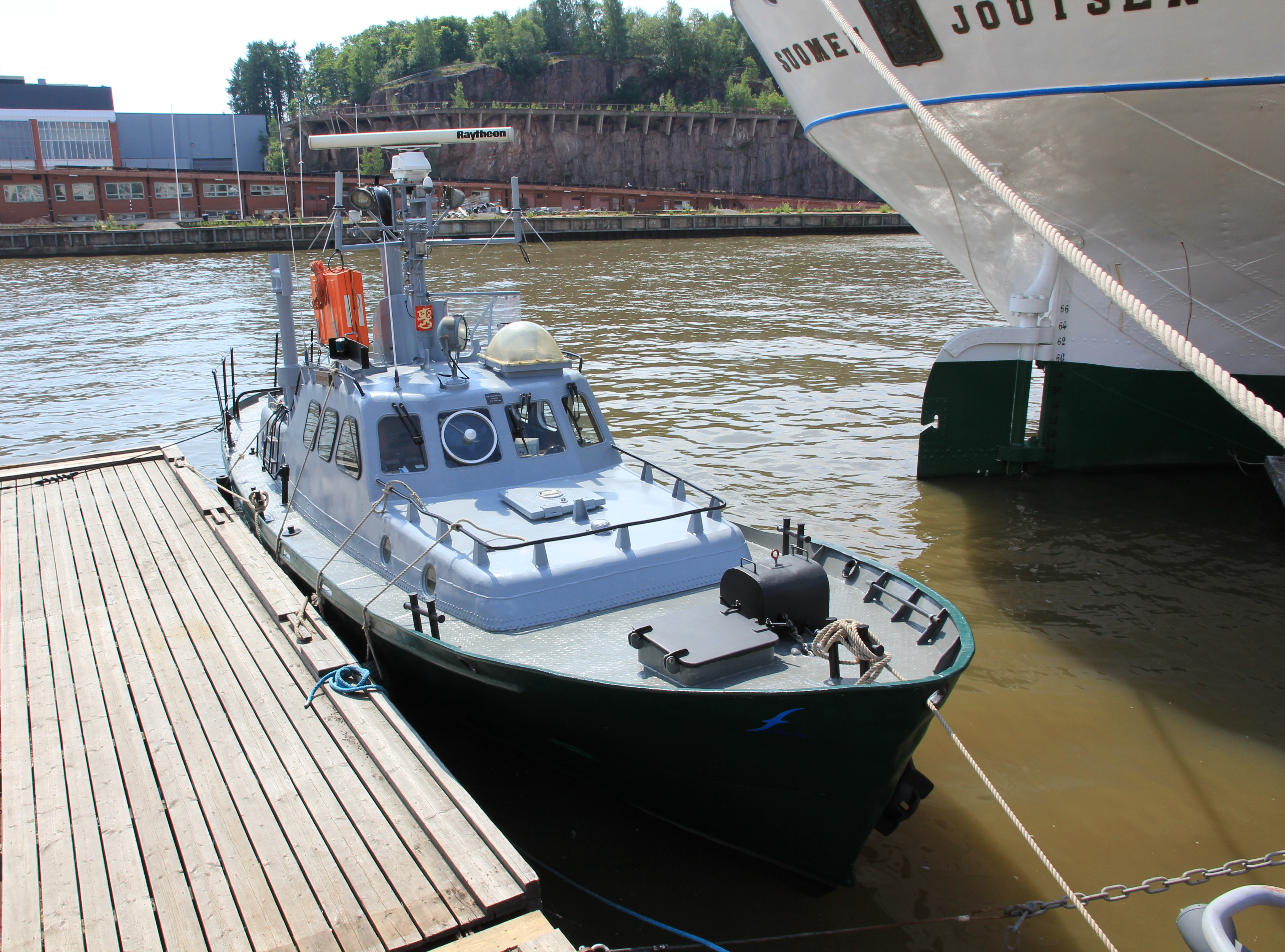 Old Finnish coast guard coastal patrol boat Rautaville RV 214 preserved as museum ship Forum Marinum.